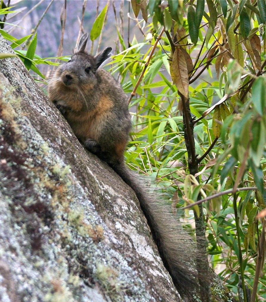 Northern viscacha Lagidium peruanum on a rock at Machu Picchu, Cusco, Peru.